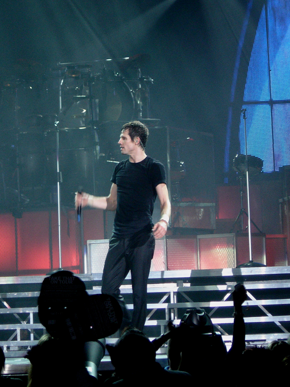 Take That member Jason Orange performing in Newcastle, England.